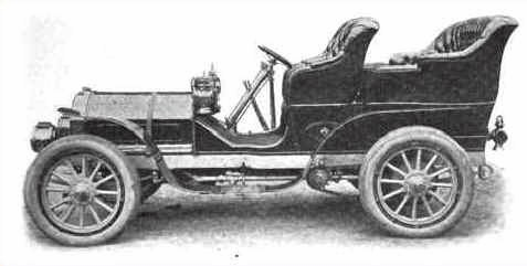 Herschell-Spillman was a well-known manufacturer of merry-go-rounds, and proprierary engines. They built a small quantity of cars in 1901, 1904-05, and 1904.